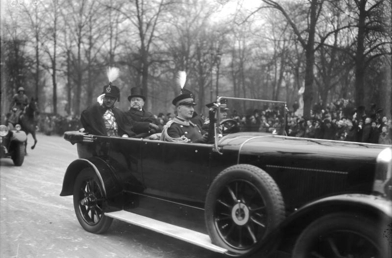 King Amānullāh Khān of Afghanistan visits Berlin! The ceremonial solicitations were done by Reich President von Hindenburg and high dignitives and representatives of the state. King Amānullāh Khān of Afghanistan and Reich President von Hindenburg during the ceremonial solicitations in the streets of Berlin.